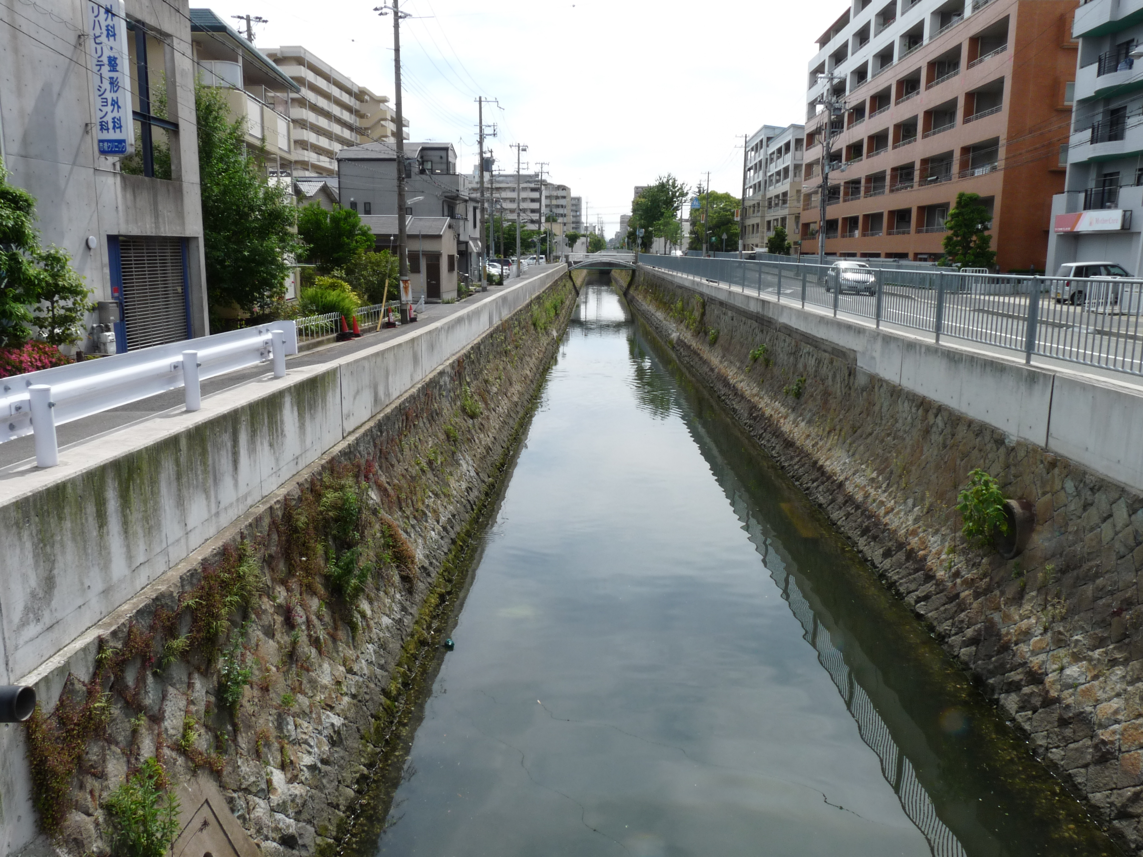 Yogenjigawa river, Kobe, Hyogo, Japan(a tributary of Takahashigawa river).